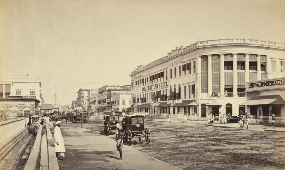 Photograph of Great Eastern Hotel from 'View of Calcutta and Barrackpore' was taken by Samuel Bourne in the 1860s. Old Court House Street is located on the eastern side of Dalhousie Square and this northern view of Old Court House Street shows St Andrew's Church in the distance, with the Great Eastern Hotel on the right.